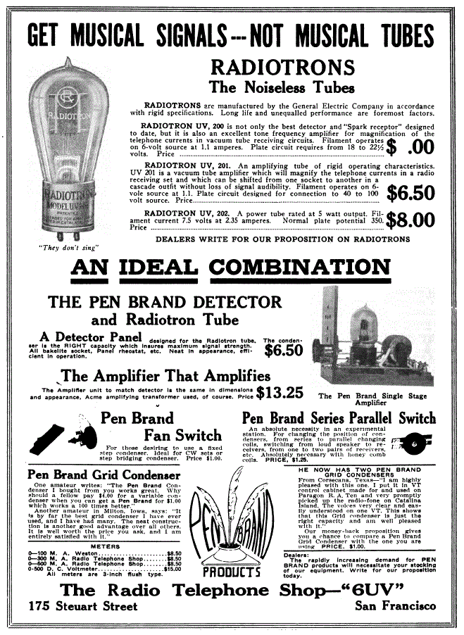 Advertisement for The Radio Telephone Shop of San Francisco, California. 6UV was the call sign of the company's amateur radio station, which later that year was relicensed as broadcasting station KYY. KYY was deleted in early 1923.